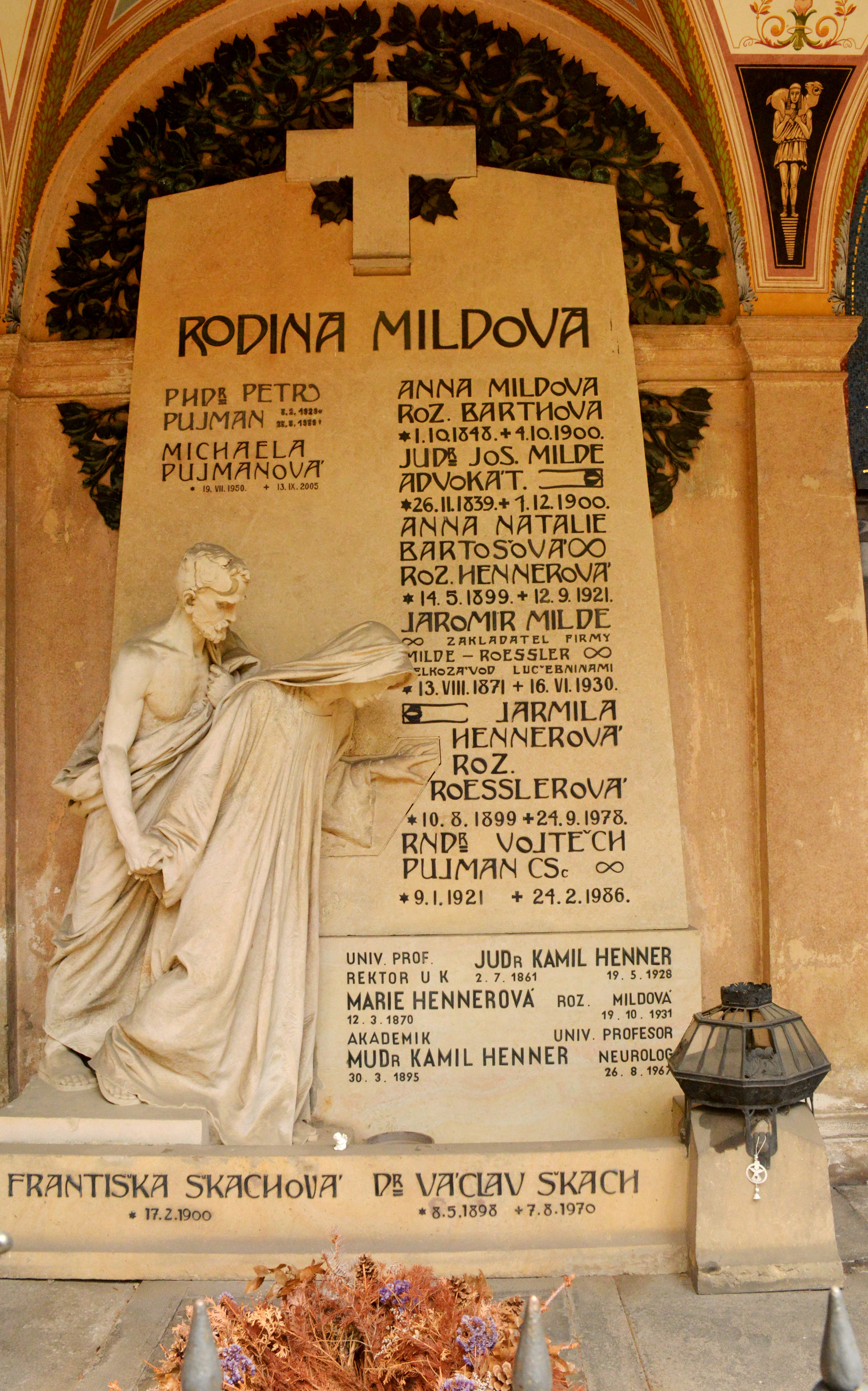 Tomb of Mild and Henner family at Vyšehrad Cemetery in Prague